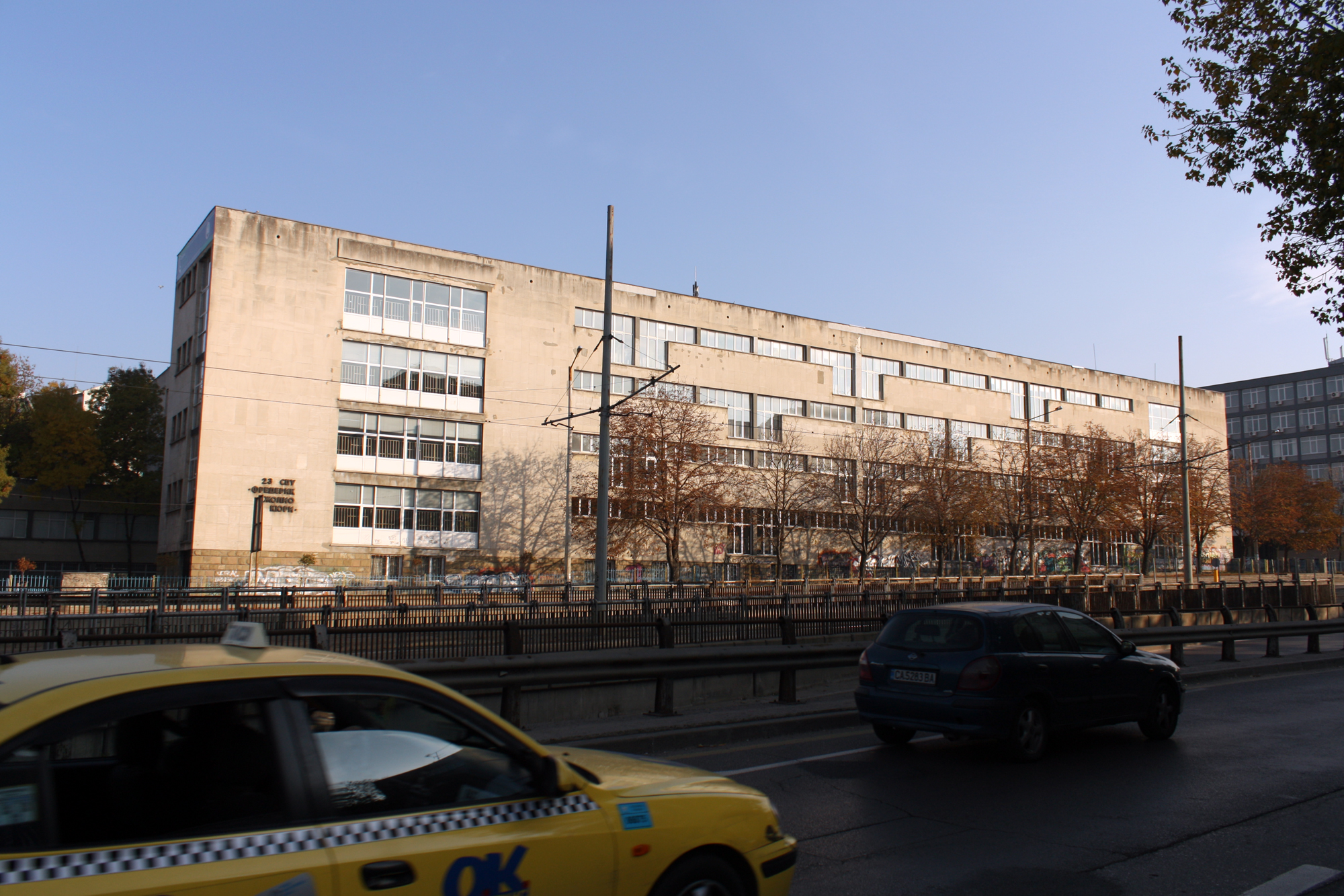 Secondary school #23, Sithyakovo boulevard, Sofia, Bulgaria